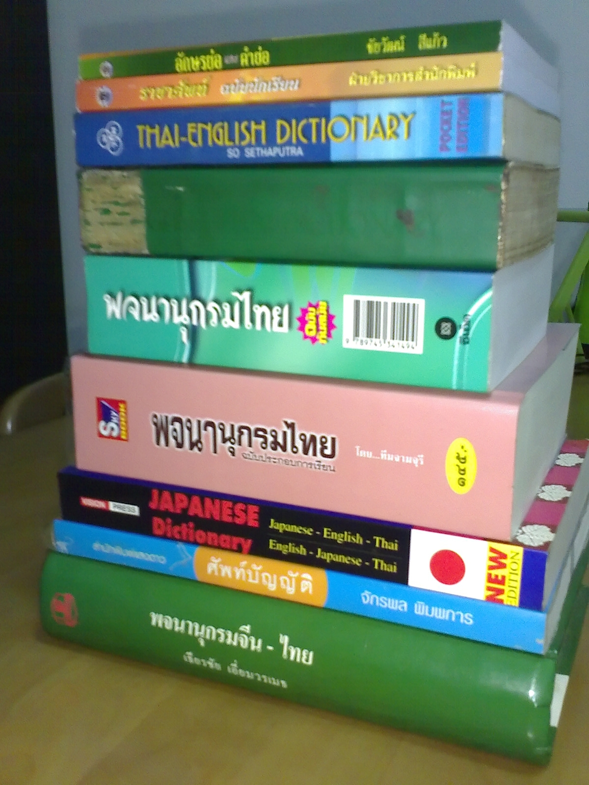 A pile of my dictionaries